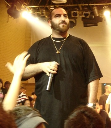 Vincenzo da Via Anfossi aka Aken, an italian writer and rapper.